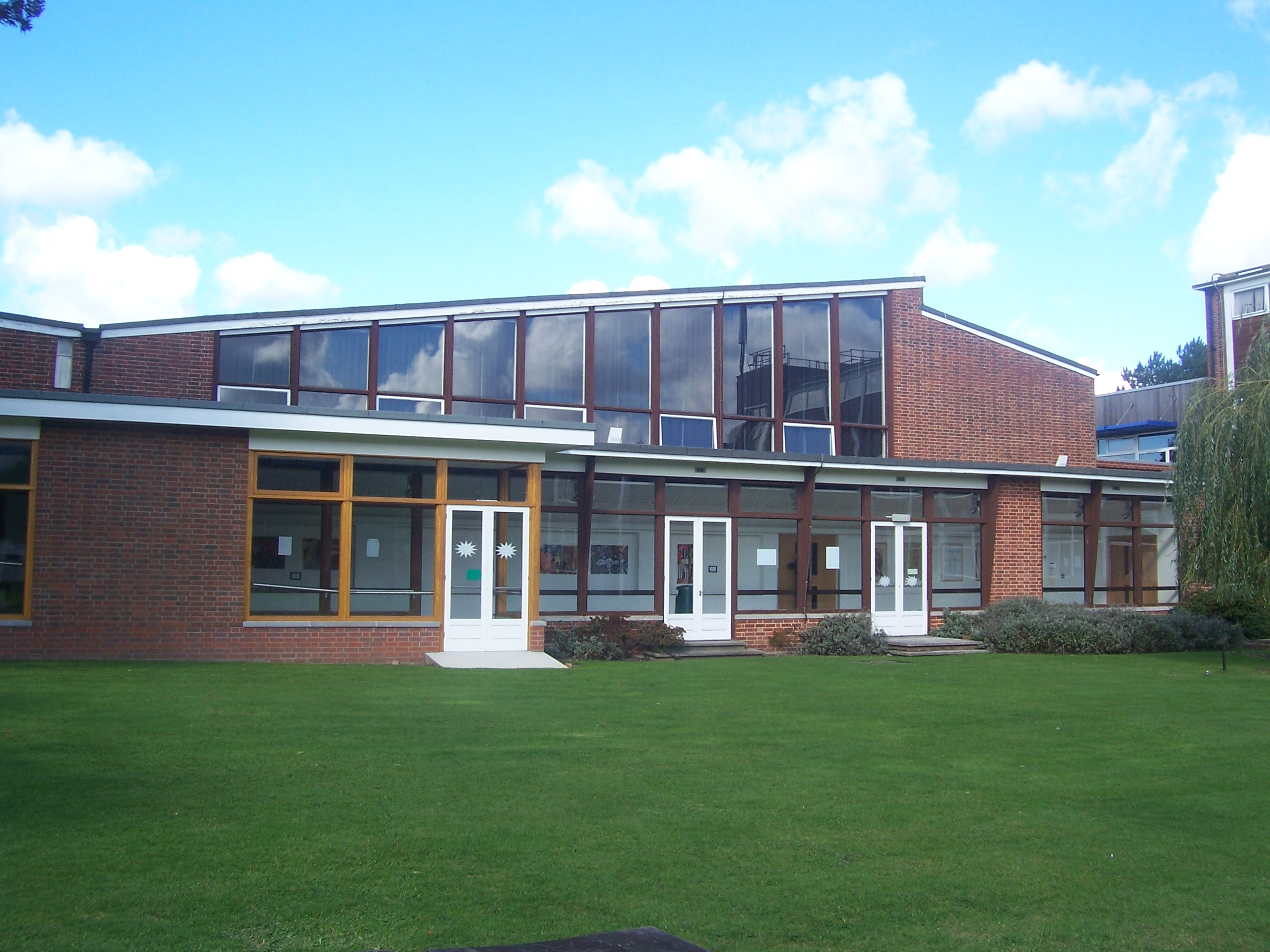 Created myself, Brock College, 3/10/06